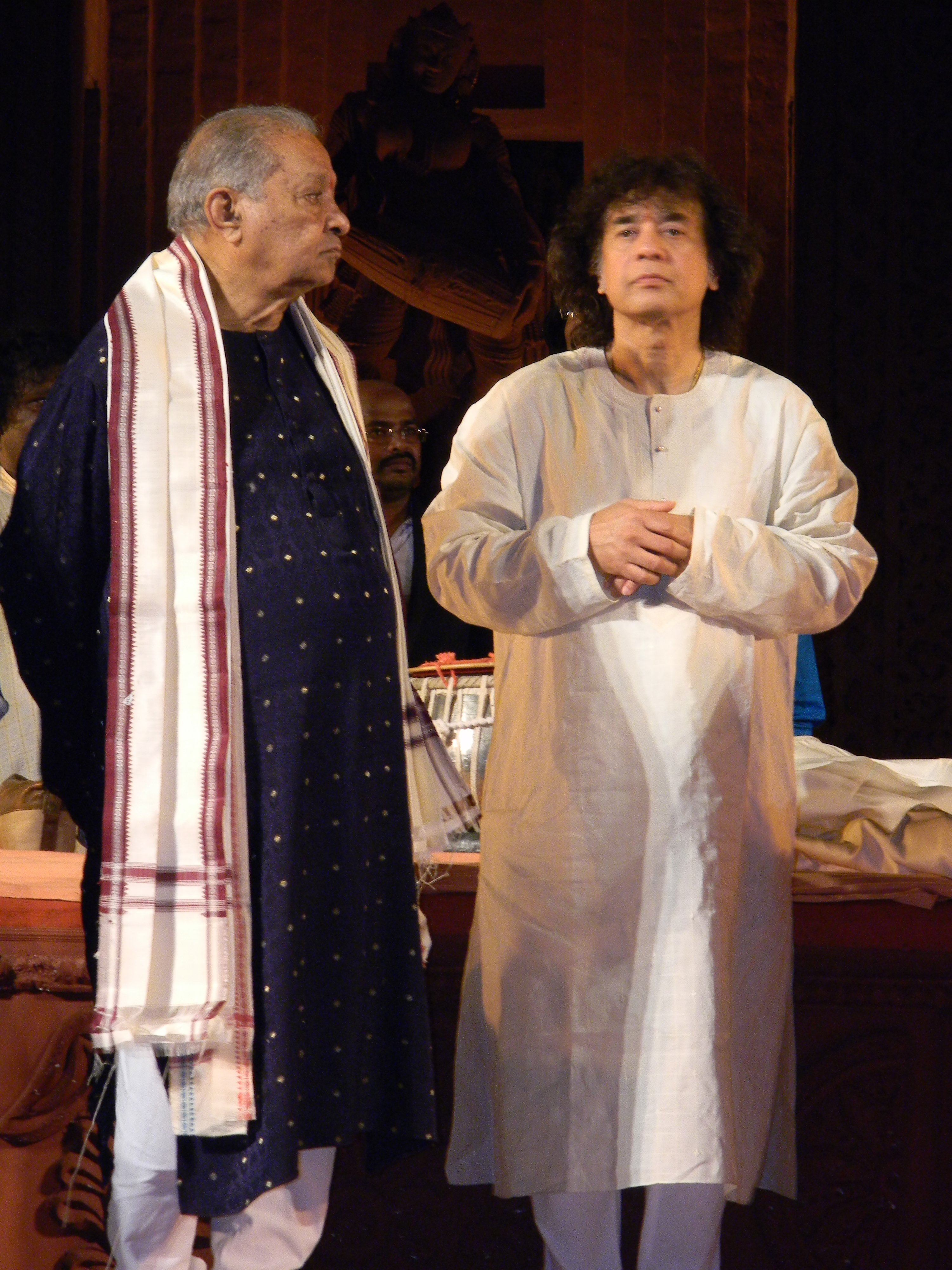 ଓଡ଼ିଆ: Ustad Zakir Hussain & Hariprasad Chaurasia This media file is uploaded with Odia loves Wikipedia